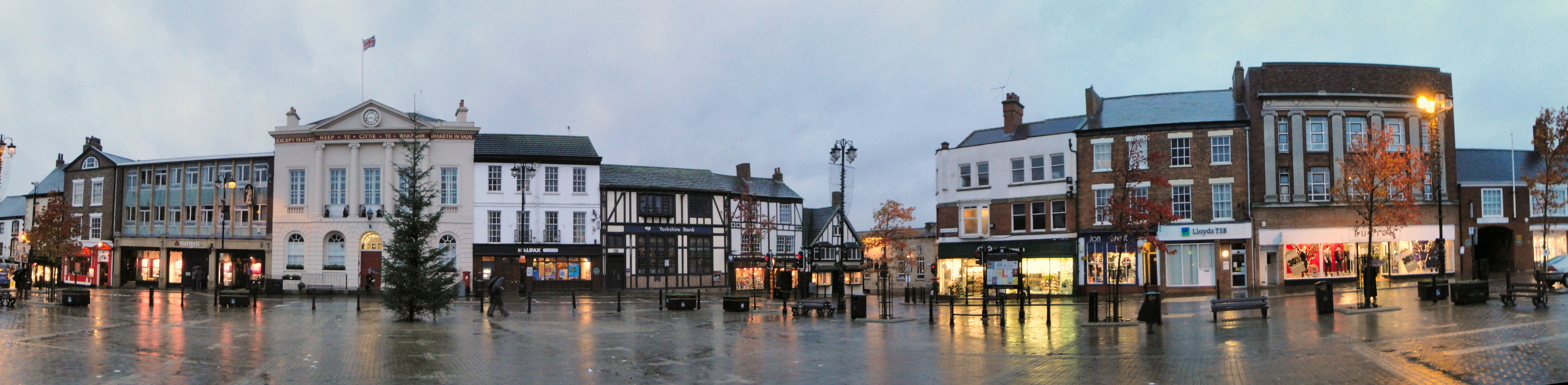 The Market of Ripon as seen from the central obelisk (180° panorama)